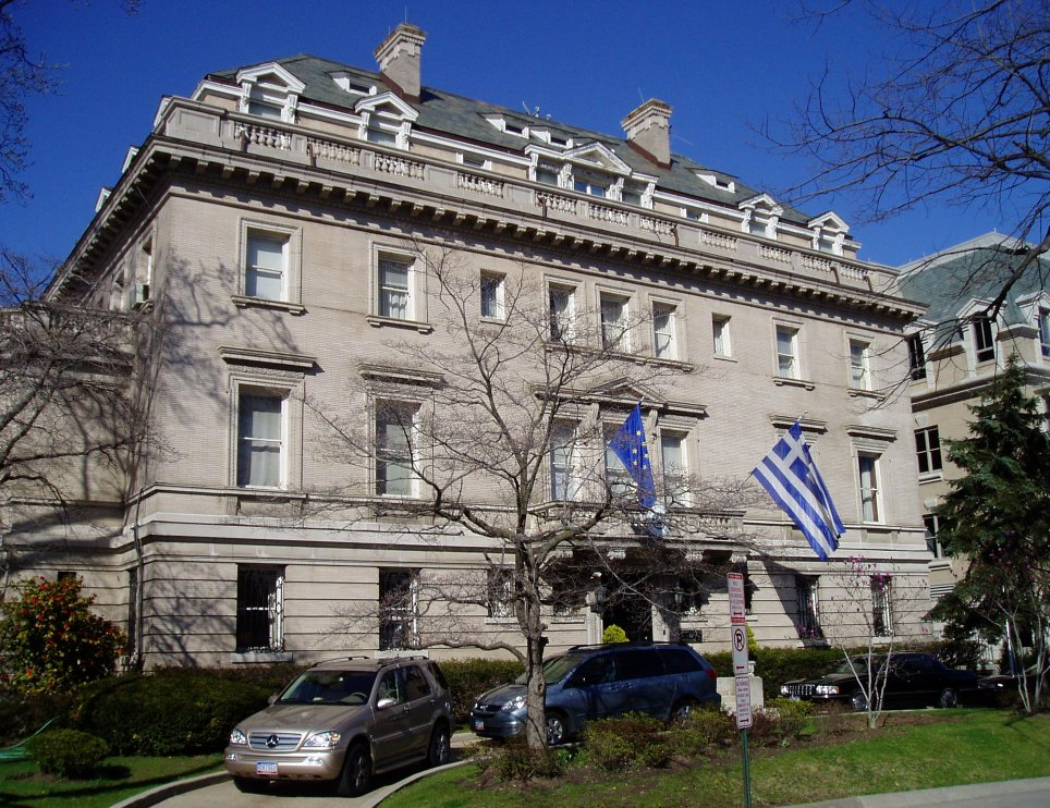 Embassy of Greece, Washington, D.C.